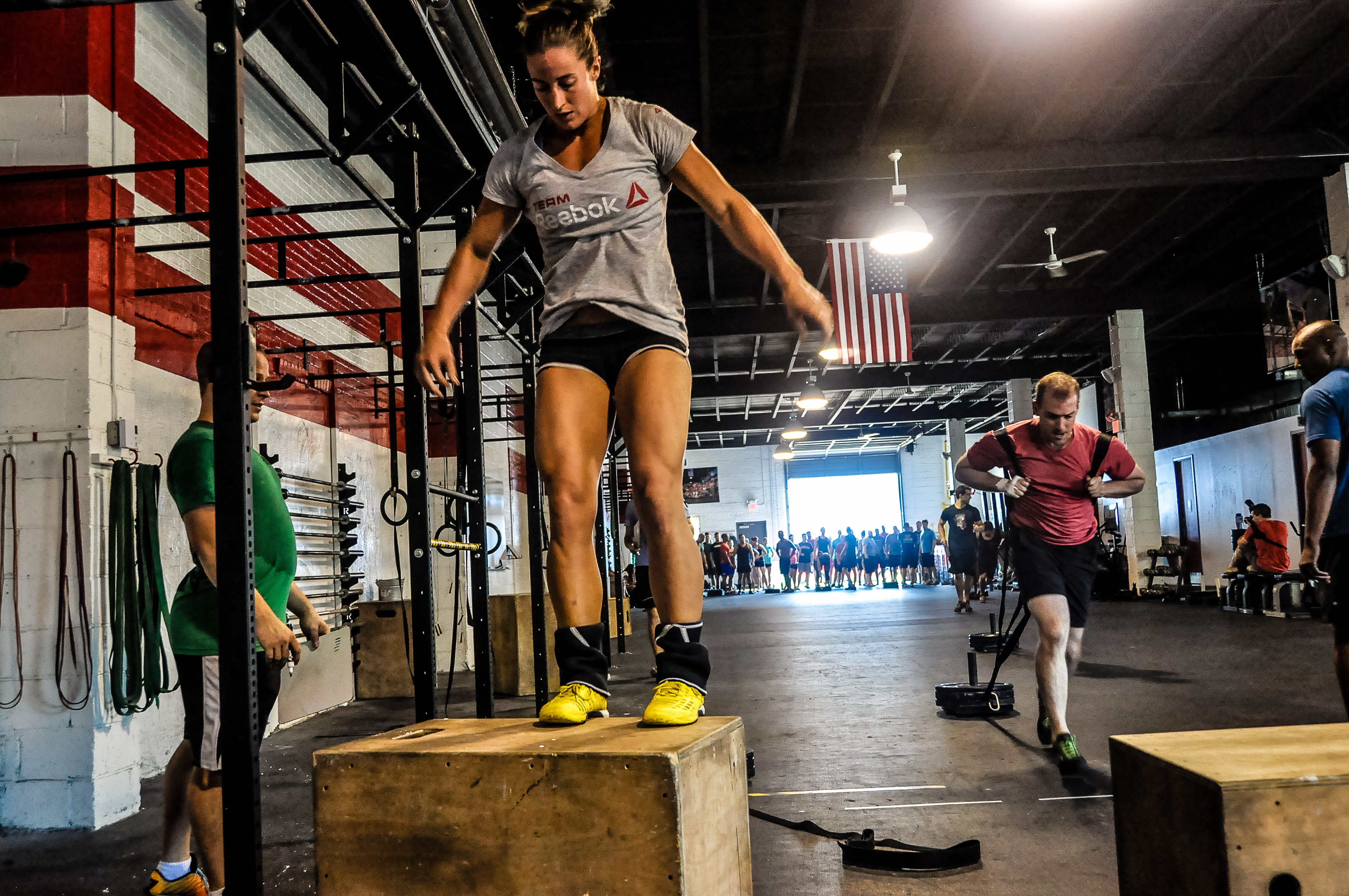 District Crossfit Class Warfare-47.jpg